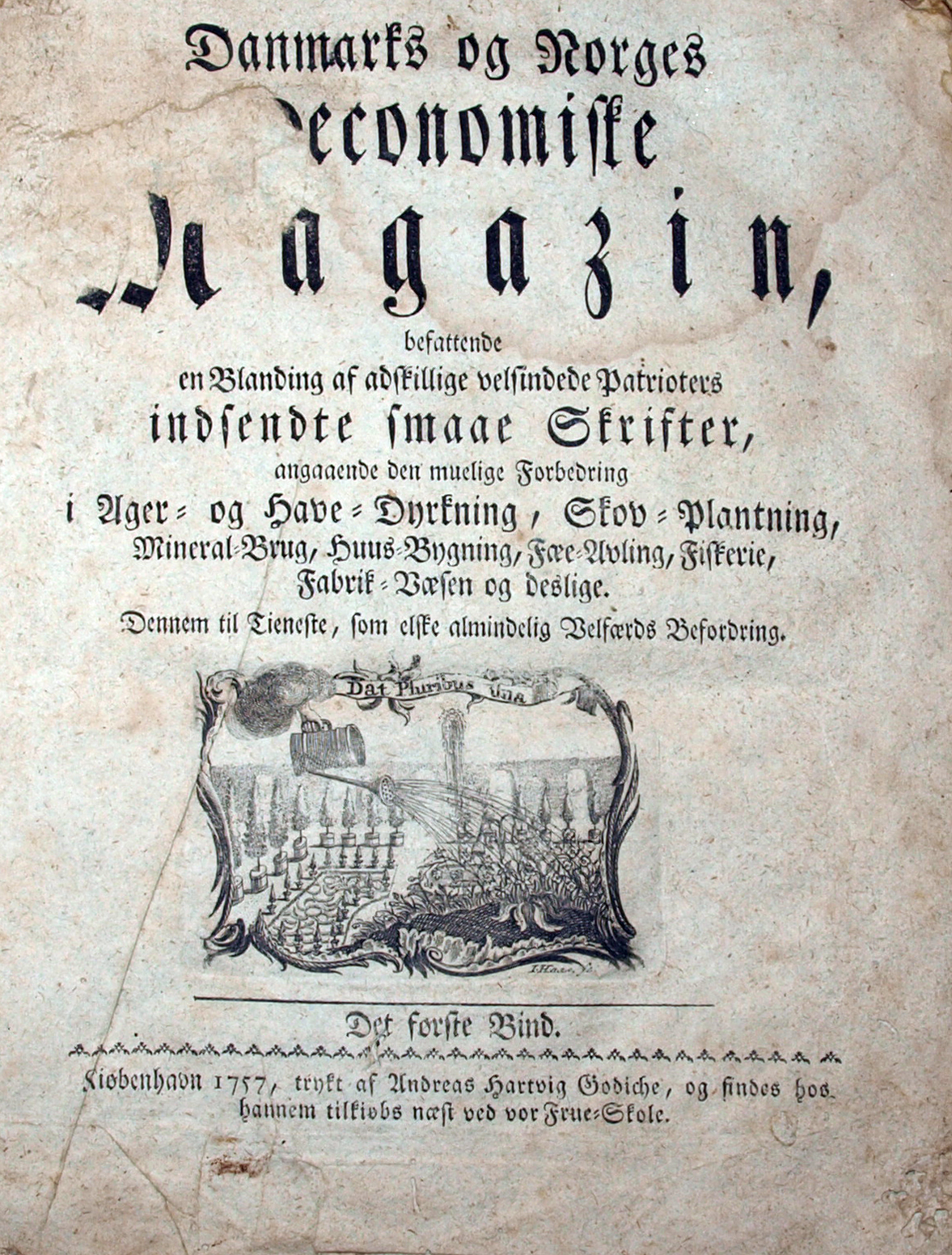 Title page of the first volume of "Danmarks og Norges oeconomiske Magazin" ("The economical Magazine of Denmark and Norway") from 1757, edited by Erik Pontoppidan the Younger.